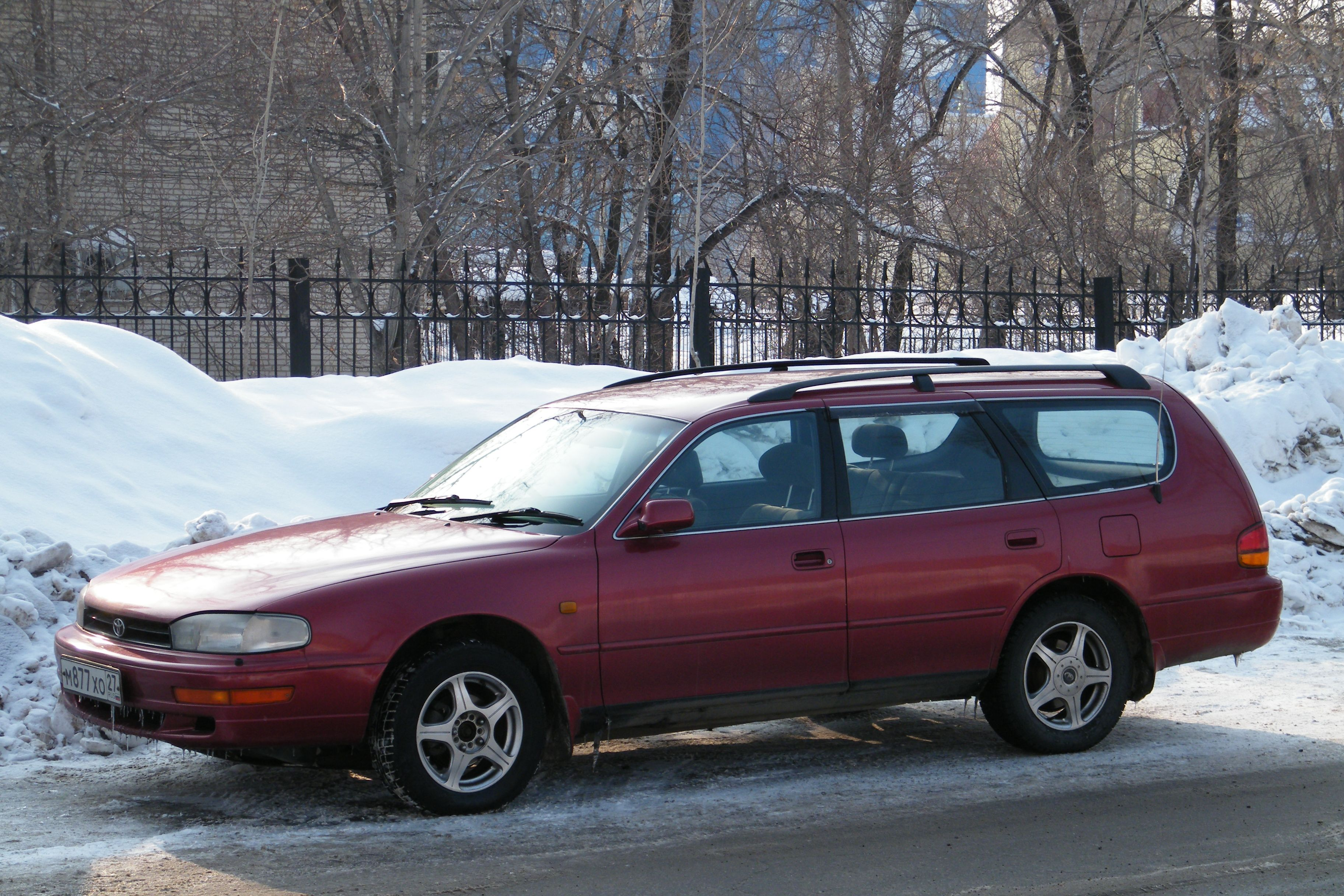 Toyota Scepter